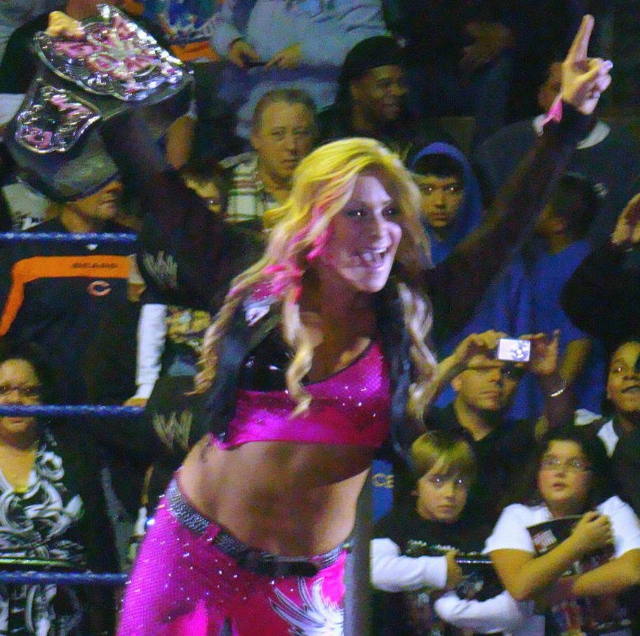 Natalya posing with the Divas championship during an WWE house show in January 2011.